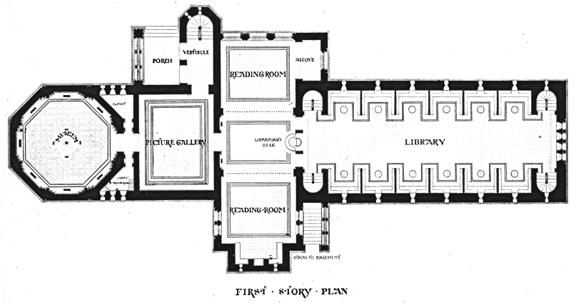 First story plan, Winn Memorial Library, Woburn, Massachusetts, USA. It is unclear whether this image was ever subject to copyright restrictions; however, even if it was, the image has long since passed into the public domain.